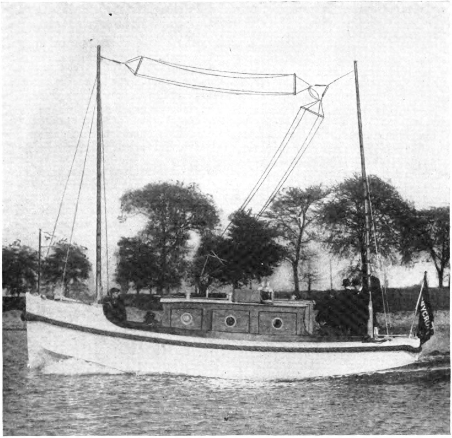 A motor lifeboat belonging to the Cunard Line showing the wireless telegraphy antenna. One of the first uses of radio was on ships, to call for rescue if they were sinking, and after the high profile 1912 Titanic sinking the US and UK governments required wireless equipment on all large vessels. This was a rescue launch assigned to the RSS Aquitania designed to tow lifeboats to safety, and was equipped with a Marconi wireless set to communicate with the ship. The primitive radio of the time used spark gap transmitters which couldn't transmit sound but instead communicated by wireless telegraphy, the operator turned the transmitter on and off rapidly with a telegraph key to spell out text messages in Morse code. Ship wireless used wavelengths of 600 and 300 meters (500 kHz and 1 MHz). This was called an "inverted-L" antenna, common on ships, consisting of a vertical feedline from the transmitter attached to a horizontal line. between two masts. The vertical feedline radiated the radio waves, while the horizontal part acted as a capacitive "top-load" to increase current in the antenna. Each conductor is composed of four wires separated by wooden spreaders, to increase the capacitance and decrease the resistance of the antenna, increasing the radiated power. The transmitter was equipped with a hand-cranked generator, in case the ship's generator broke down. Alterations to image: Removed aliasing artifacts (crosshatched lines) introduced by scanning of the halftone photo using Gimp FFT filter.